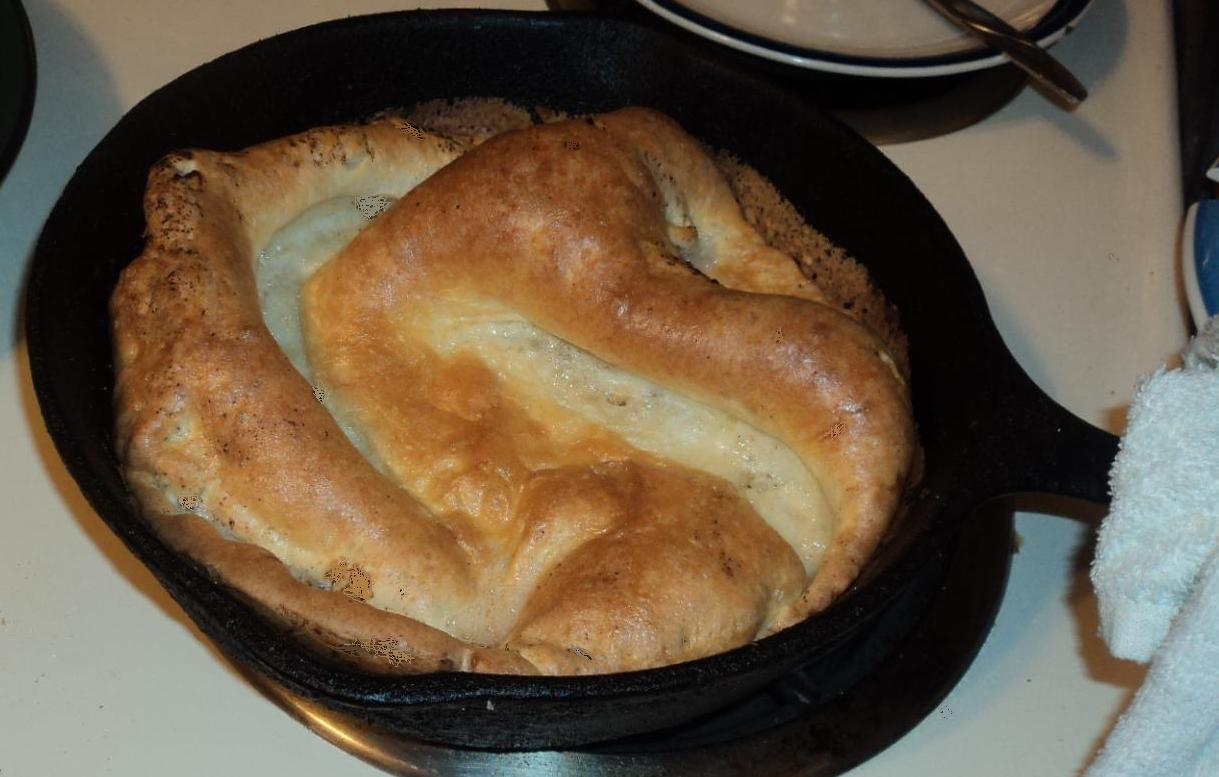 Yorkshire Pudding cooked in 22cm dia fry pan